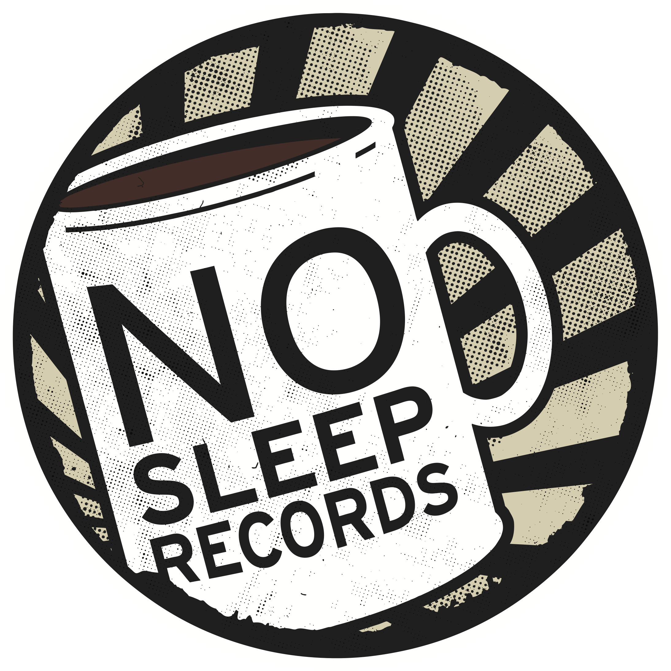 No Sleep Records Logo